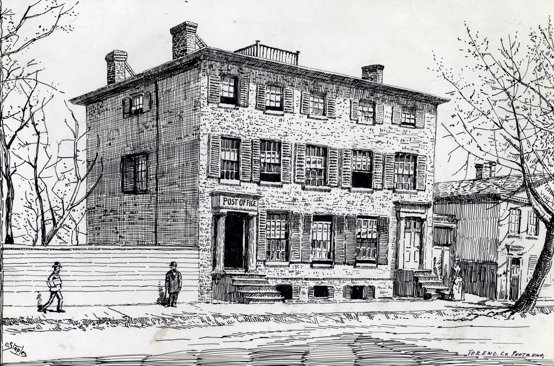 The Fourth Post Office c. 1839, Toronto, Ontario. Note: Nowadays this is known as "Toronto's first post office. Presumably the earlier three post offices were in York, Upper Canada. Note:This building survives to the present day, but looks very different, as the addition of a mansard roof added a fourth story.